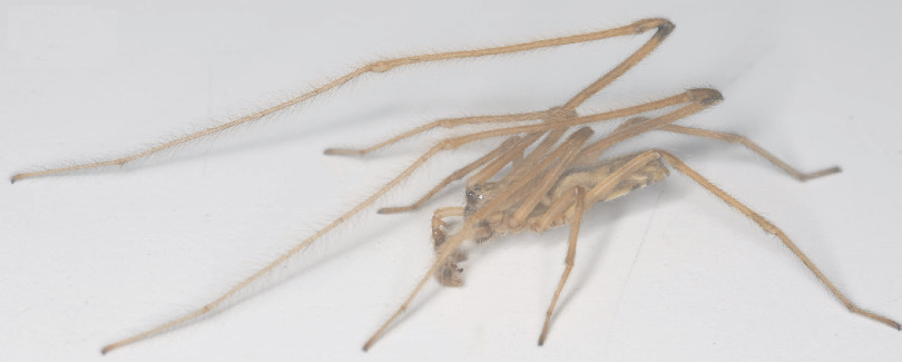 A male of Fecenia cylindrata from Champasak Province, Laos.